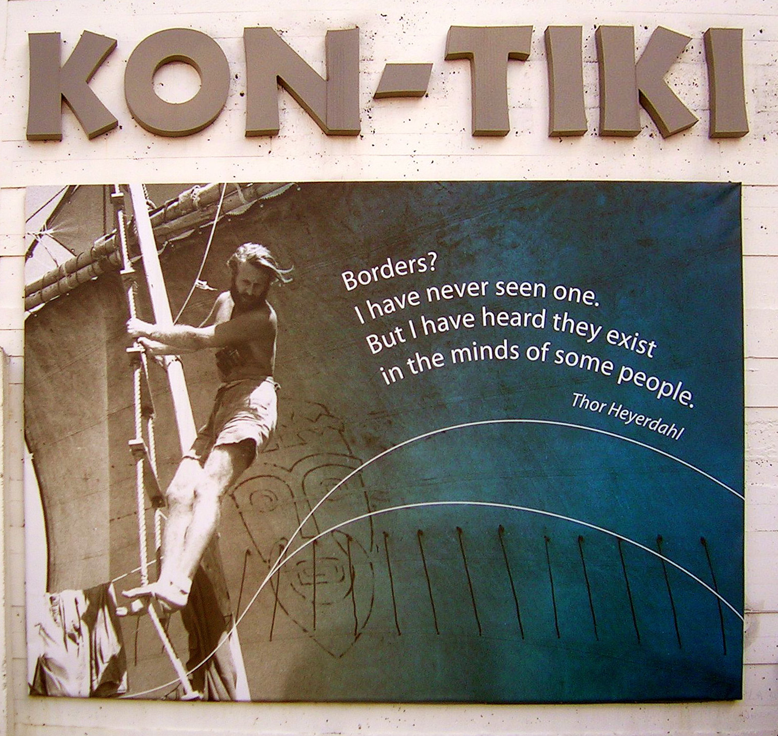 Thor Heyerdahl quotation outside Kon Tiki museum, Oslo. "Borders? I have never seen one. But I have heard they exist in the minds of some people." (Thor Heyerdahl)